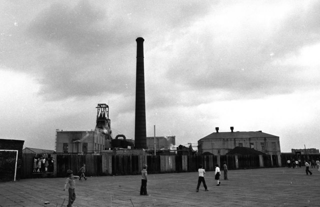 Parsonage Colliery, Leigh. Photographer's comments - The square building on the left with wisps of steam housed a unique steam winding engine by W & J Galloway - No. W1. It was soon to be electrified and the whole pit has since gone. Nearby Bickershaw Colliery lasted longer but has also now gone. My slightly younger colleague (19) asked a bemused local "where is the coal place?".